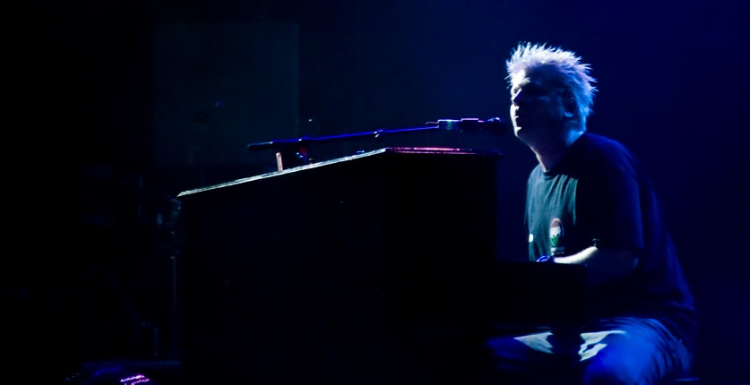 Dexter Holland performing at the Sziget Festival on the 16th of August 2009.